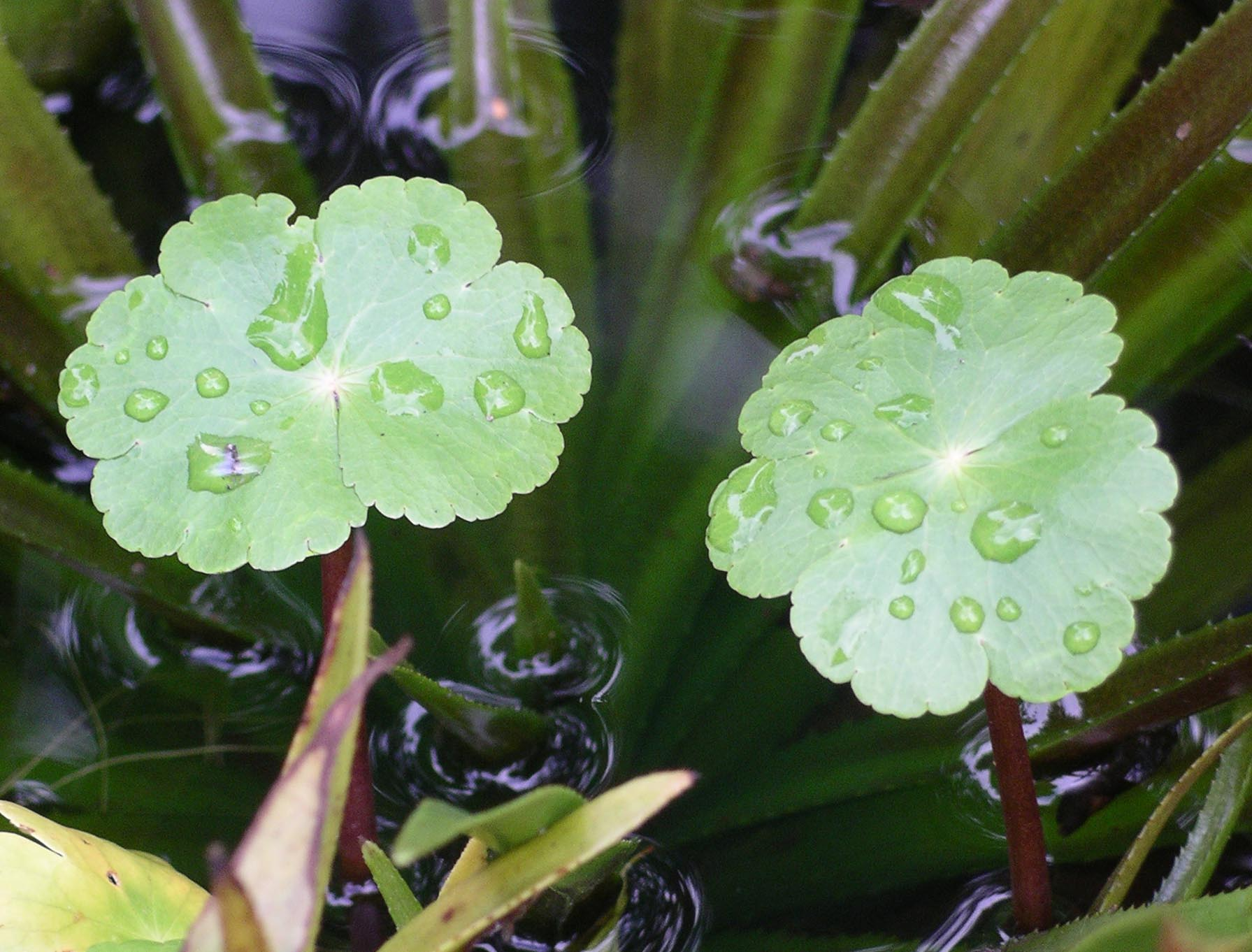 Hydrocotyle ranunculoides in a pond on Anglesey